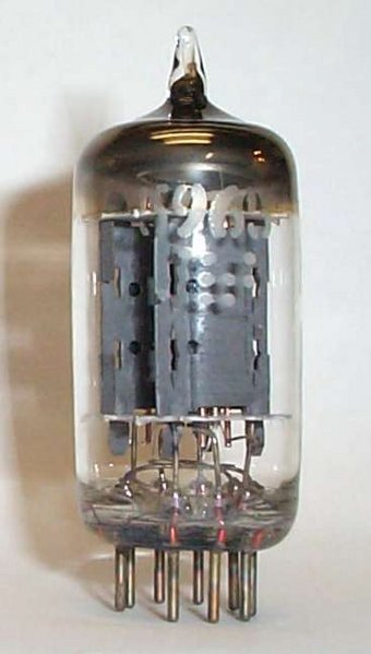 Vacuum tube widely used in the 1960s. Possibly 12AX7/ECC83 (double triode). Labelled "1969" with a General Electric dot code below.